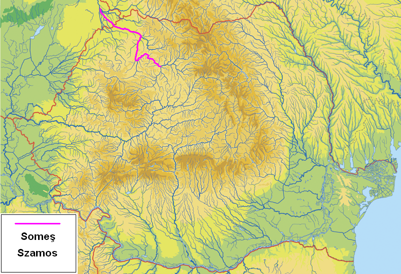 Map of Romania with Someş River.